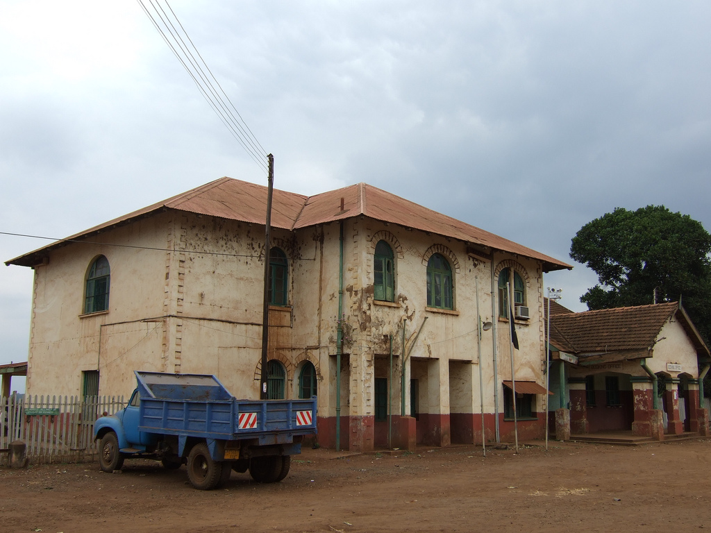 The railstation in Moshi, built from the germans, Tanzania